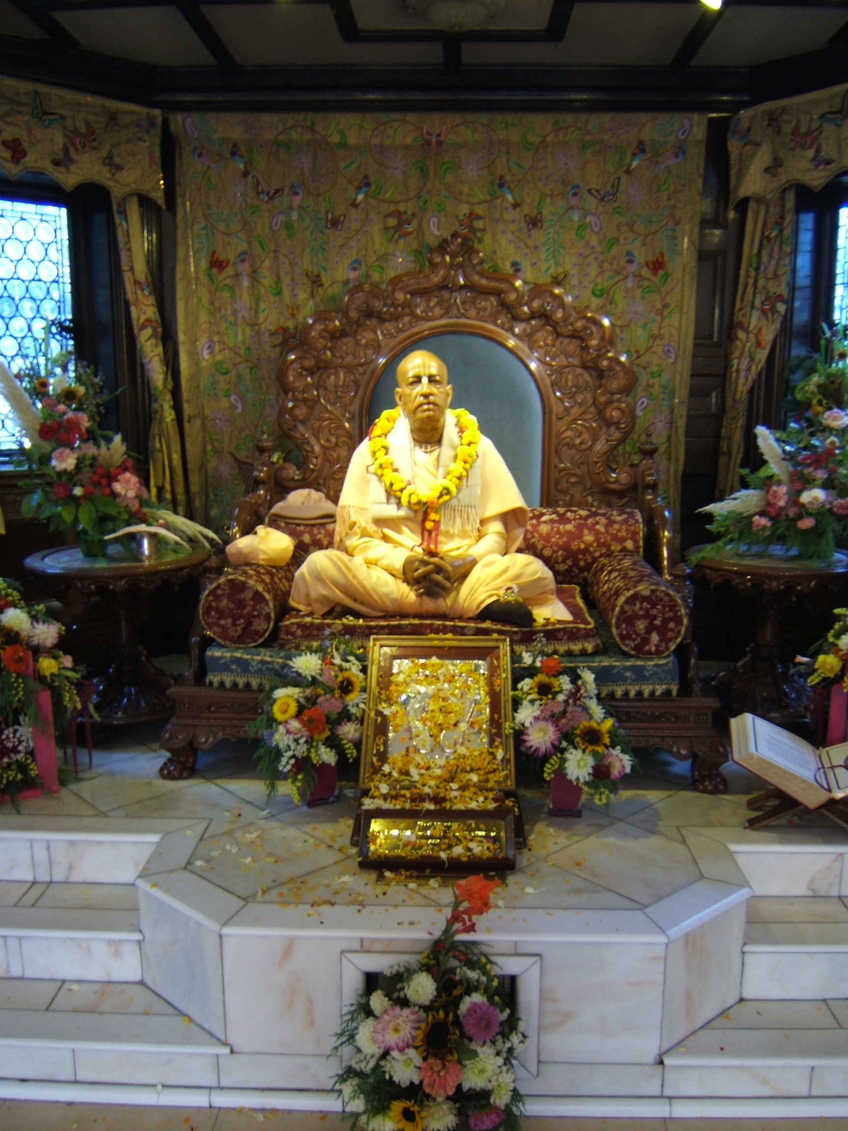 Gaudiya Vaishnava Hindu ISKCON Temple in the village of Aldenham near Watford